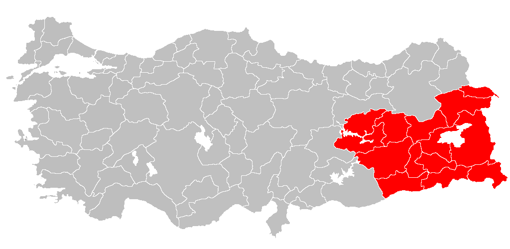 Map of the provinces of Turkey with fourteen highlighted: Ağrı, Batman, Bingöl, Bitlis, Diyarbakır, Elazığ, Hakkari, Iğdır, Mardin, Muş, Siirt, Şırnak, Tunceli, and Van. These provinces have majority Kurdish populations, according to page 167 of Watts, Nicole F. Activists in Office: Kurdish Politics and Protest in Turkey. Seattle: U of Washington P, 2010. Some localities within these provinces have non-Kurdish majorities, and many localities outside these provinces have Kurdish majorities; this map is only meant to depict the ethnic populations of provinces as a whole, ignoring local exceptions.